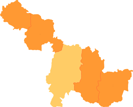 Map of Suzhou in Anhui province.